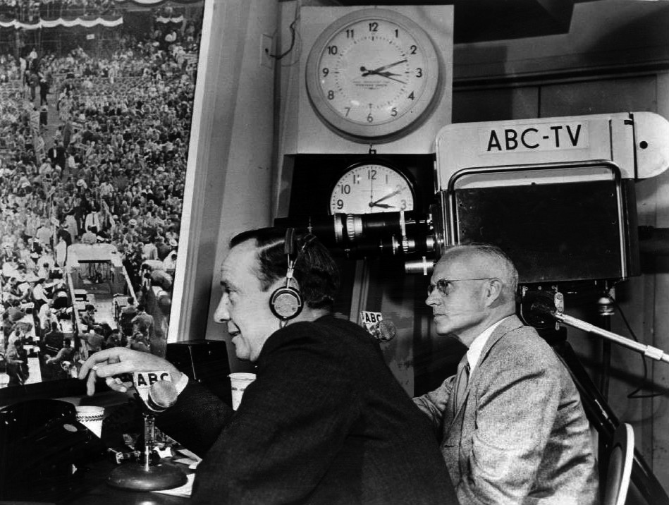 Photo of John Daly (left) and Quincy Howe (right) during ABC Television's Presidential Convention television coverage.